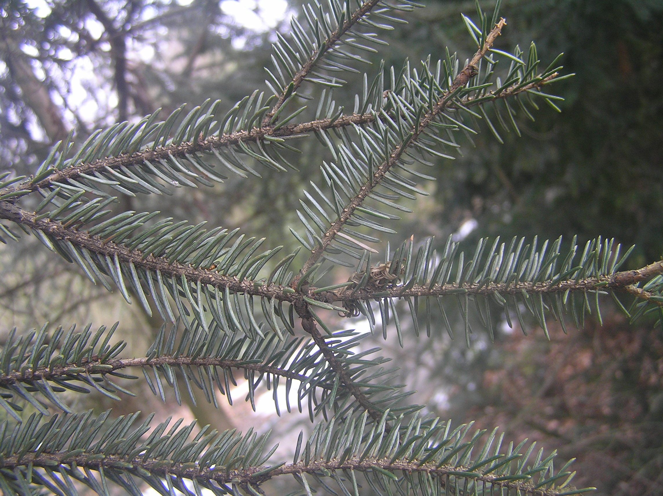 Picea likinagensis, cultivated in Brno, Czech Republic